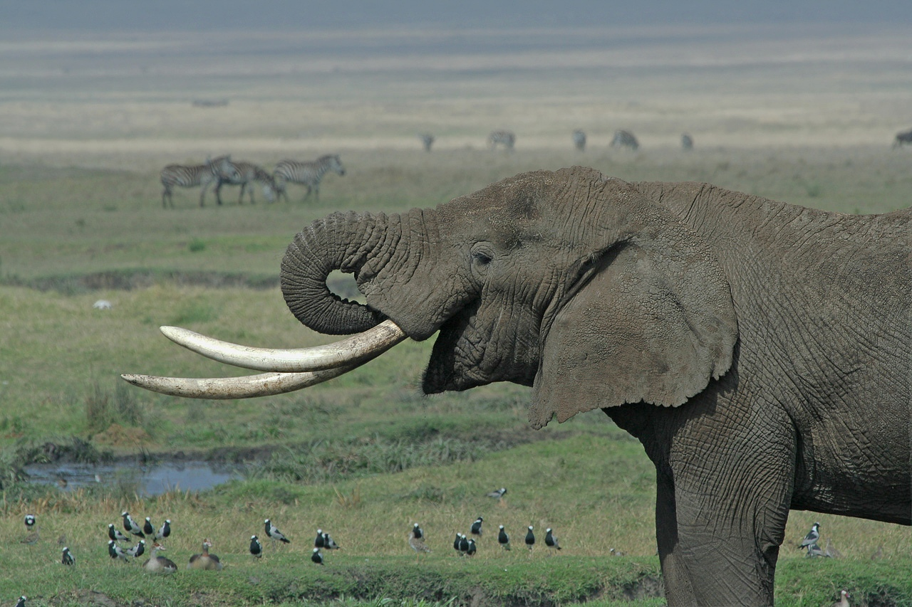 Taken in the Ngorongoro crater, Tanzania